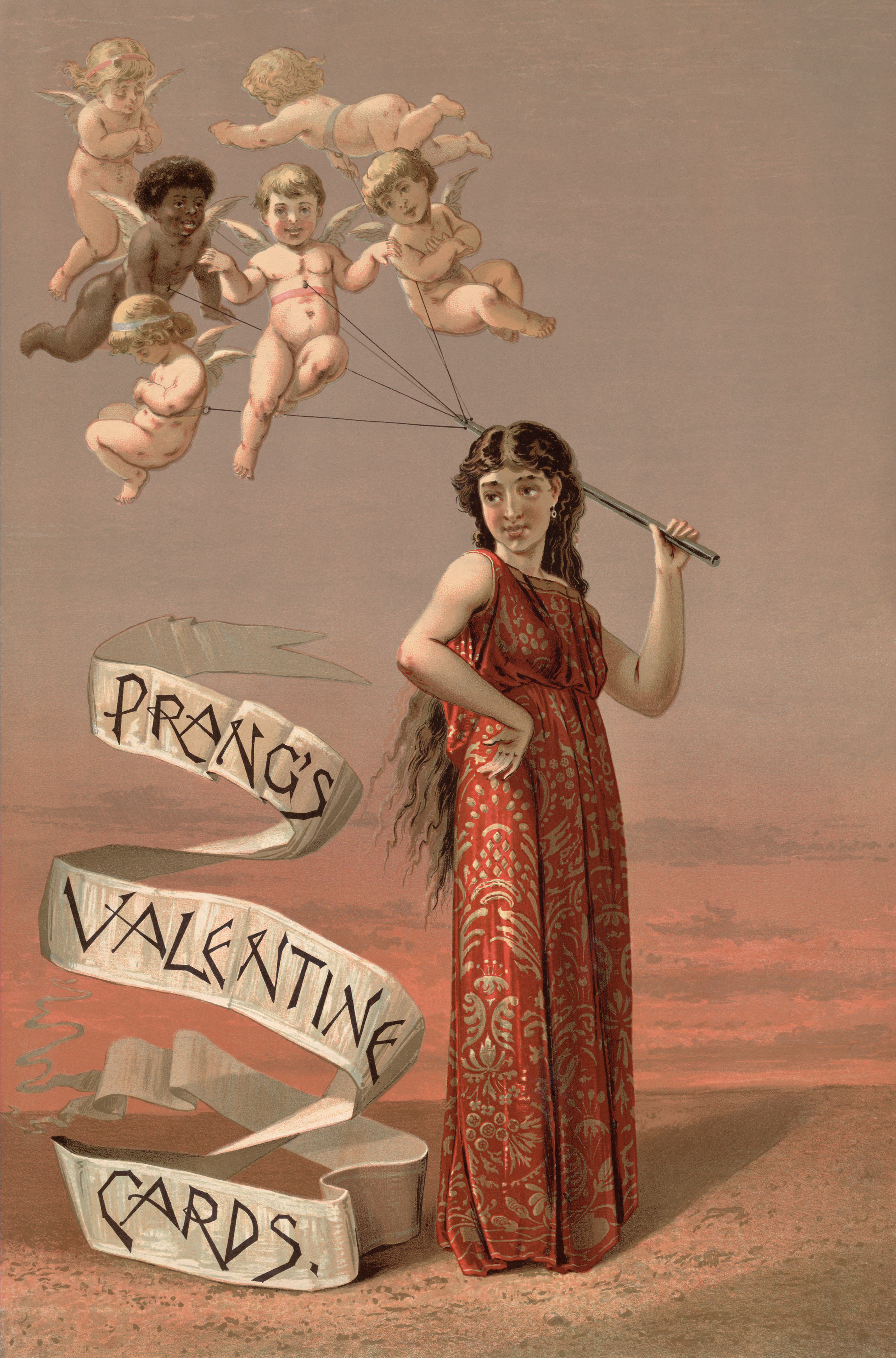 "Prang's Valentine cards". Advertisement for Prang's greeting cards, showing a woman holding a group of tethered cherubs, who float like a bunch of balloons above her. One of the cherubs is portrayed as a baby of African descent. 1 print : lithograph, color.